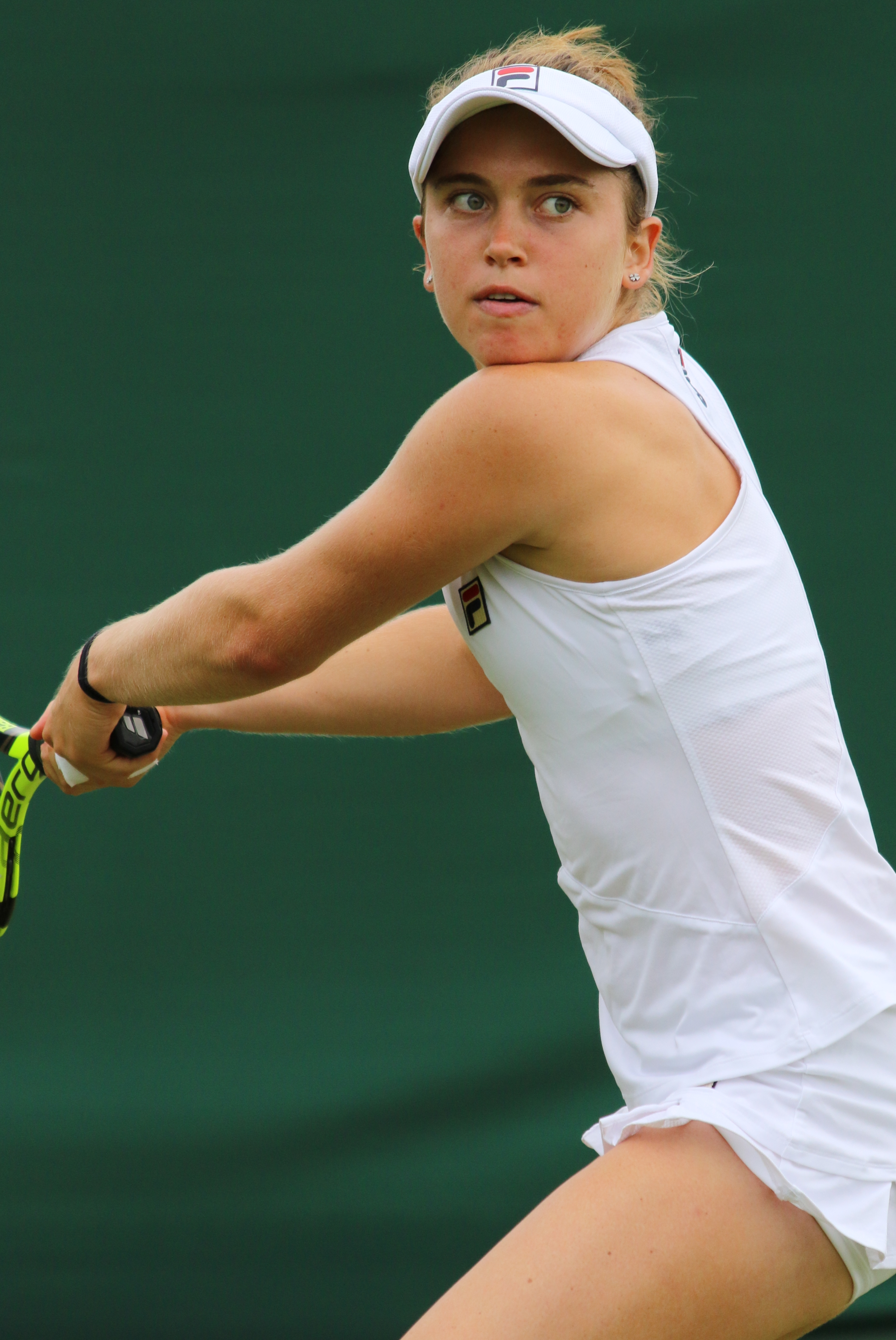 2019 Wimbledon Qualifying Tournament.